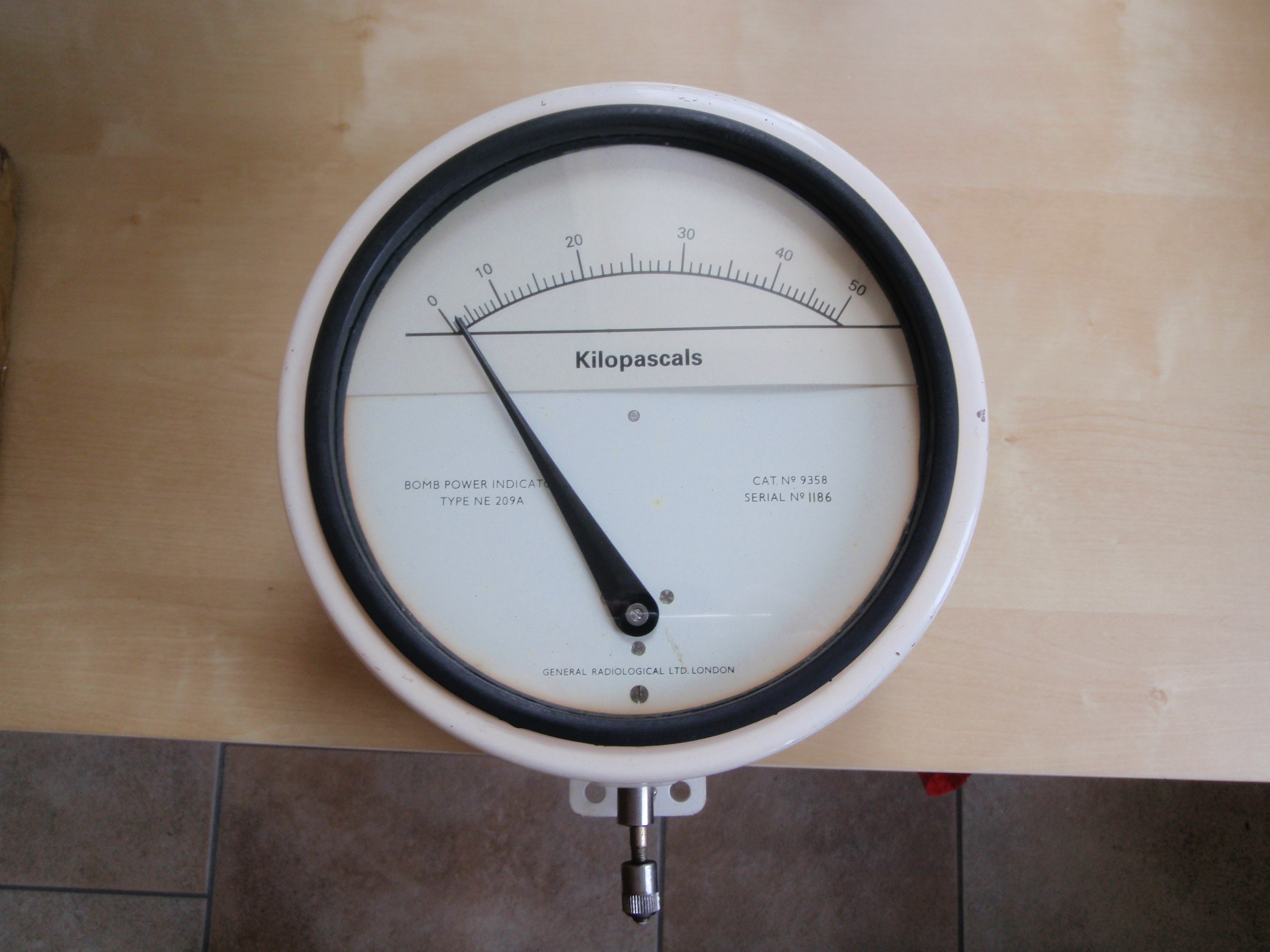 Photo showing the ROC Bomb Power Indicator.